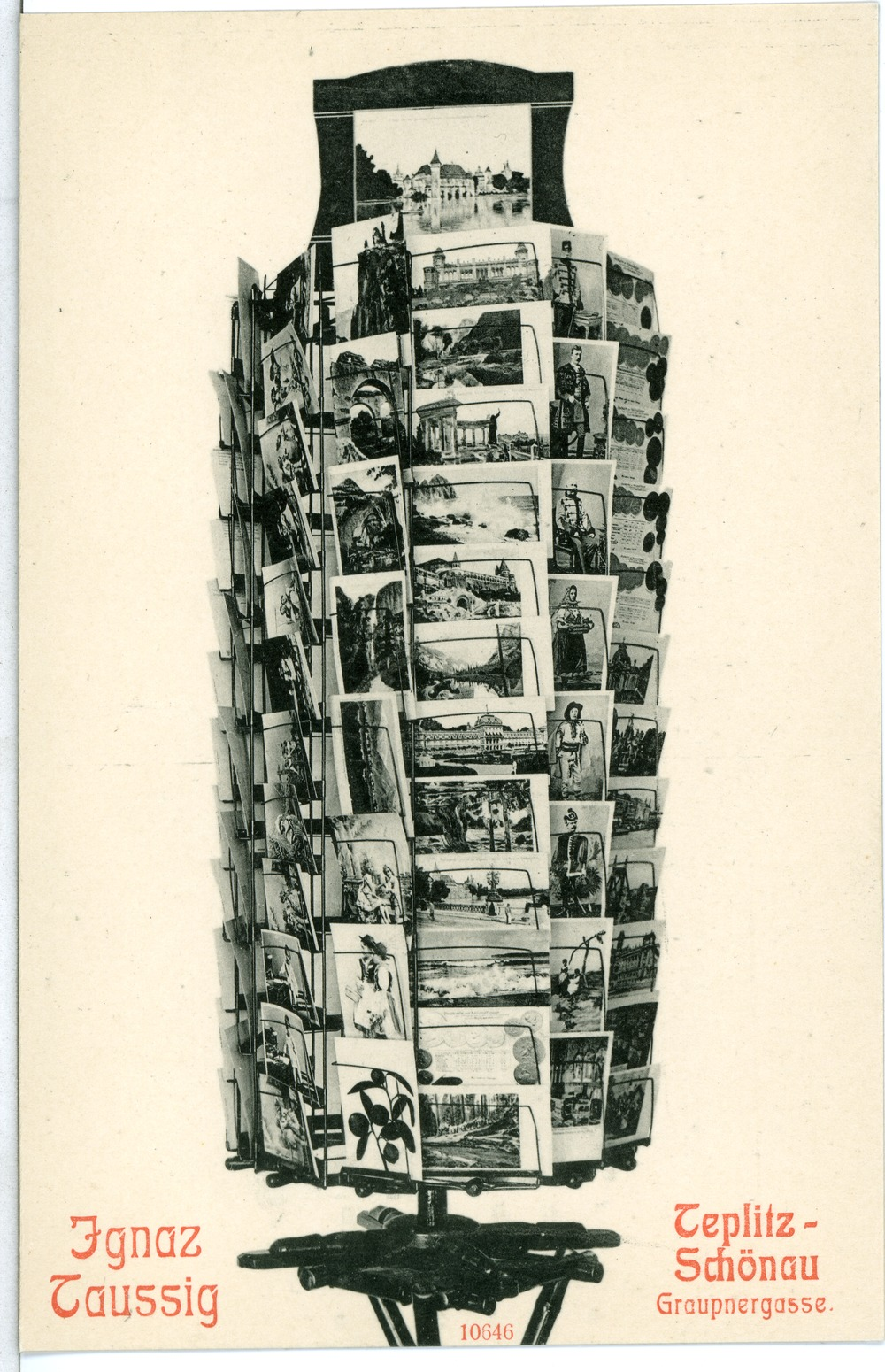 This postcard is from publisher Brück & Sohn in Meißen ( This postcard has a unique number 10646 and is available in a higher resolution at the publisher. This images was uploaded in a cooperation project between Wikipedians and the publisher.